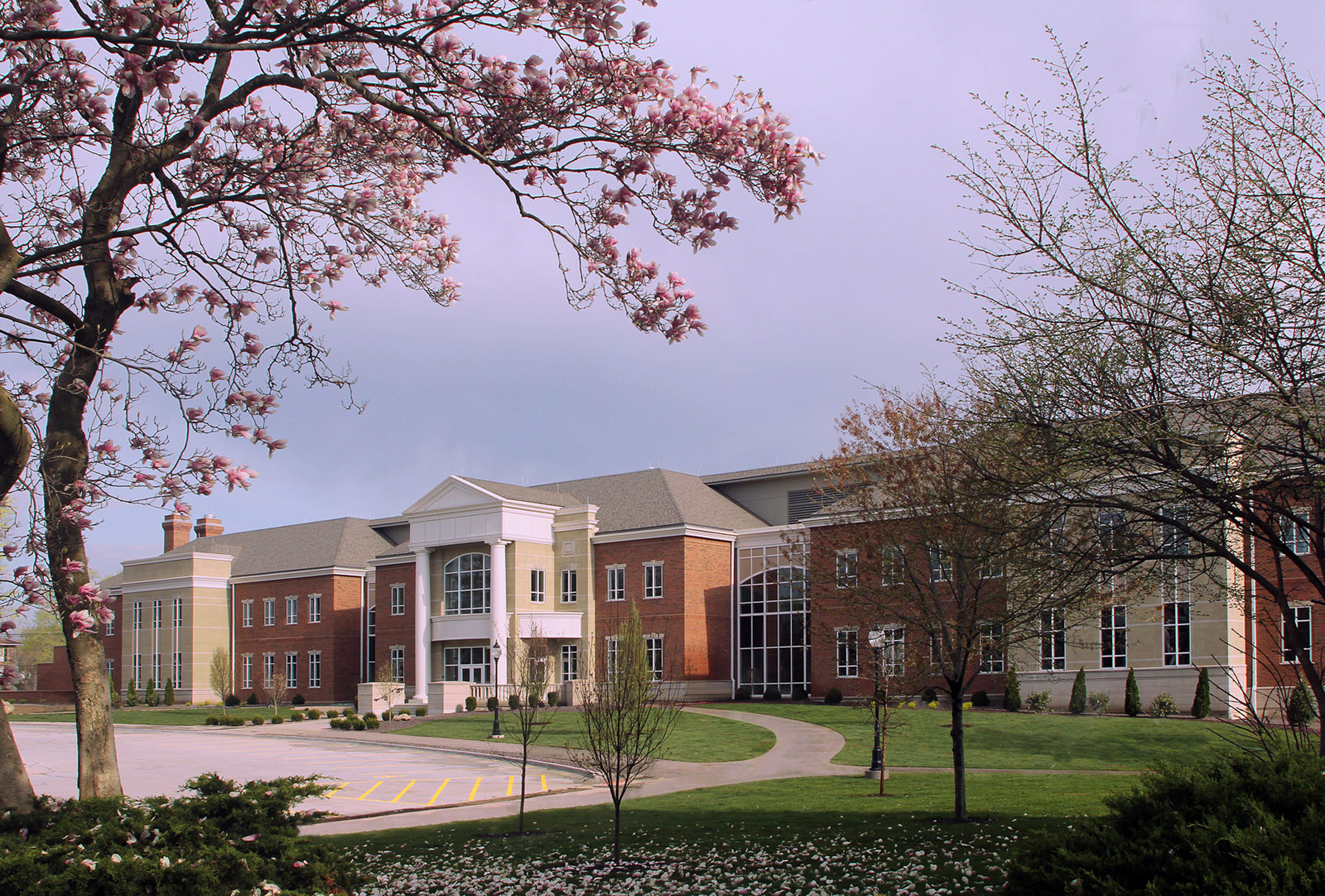 Dedicated in 2013, Monmouth College's Center for Science and Business was designed to foster interdisciplinary discussion and cooperation.